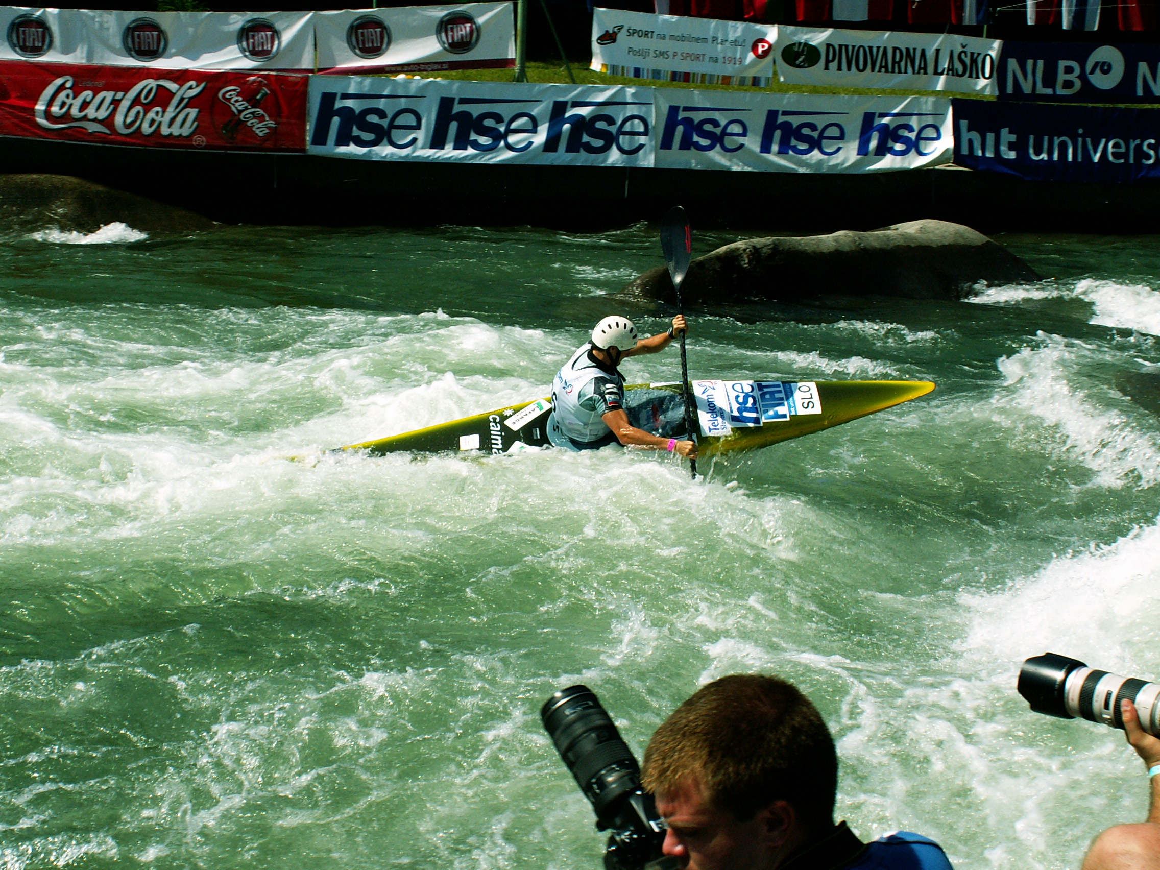 Peter Kauzer, slovenian whitewater kayakist on course in Tacen, Slovenia.